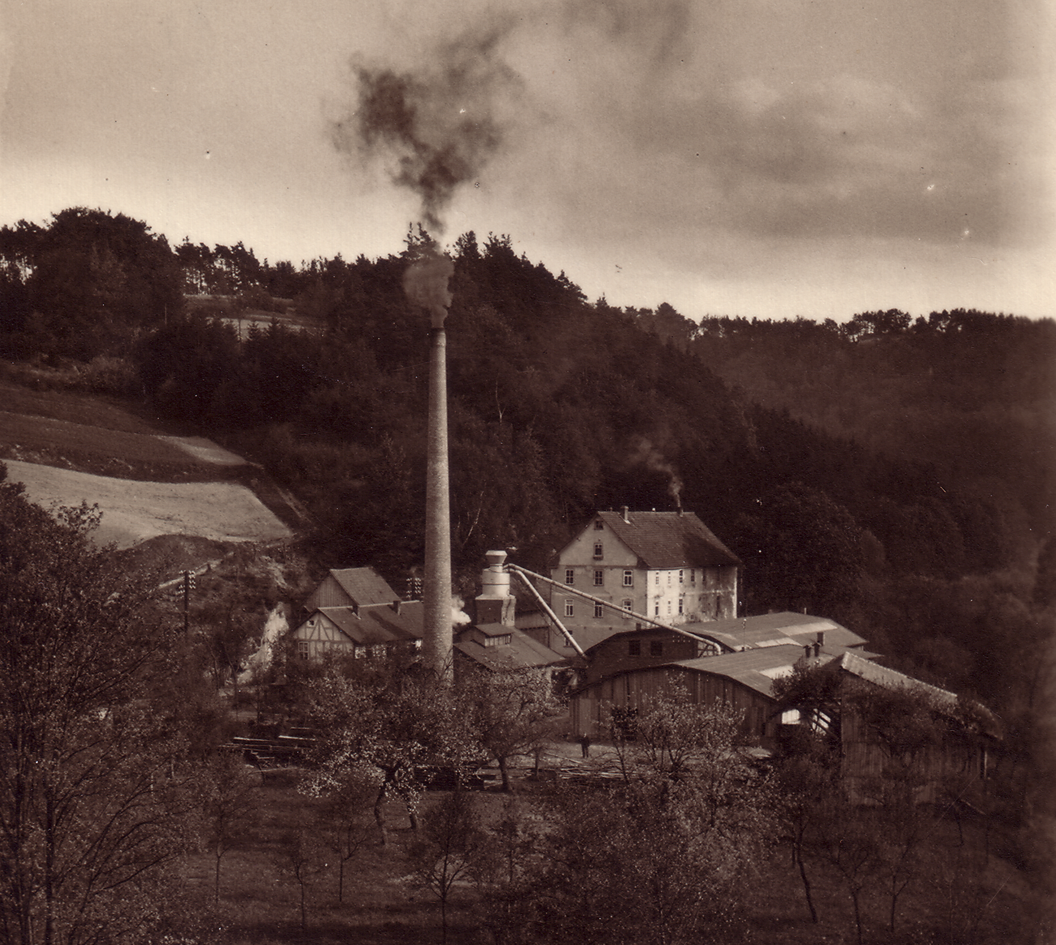 Wiesenmuehle in the 1920th